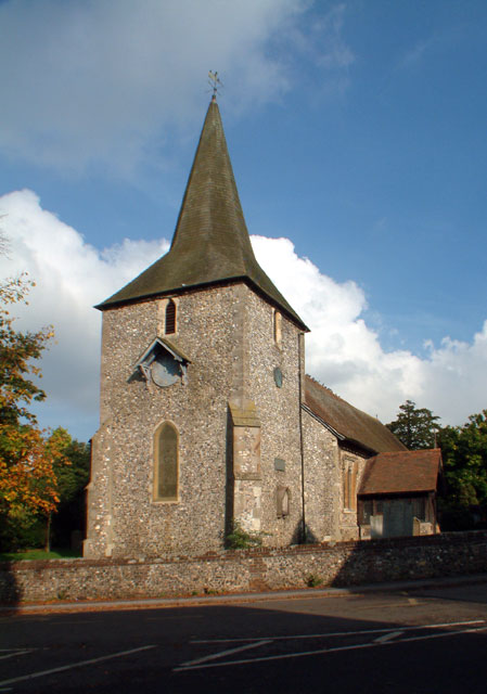 St Mary the Virgin, Downe BR6. The church dates from the thirteenth century. The sundial on the south side is a memorial to Downe's most famous resident, Charles Darwin. See history at